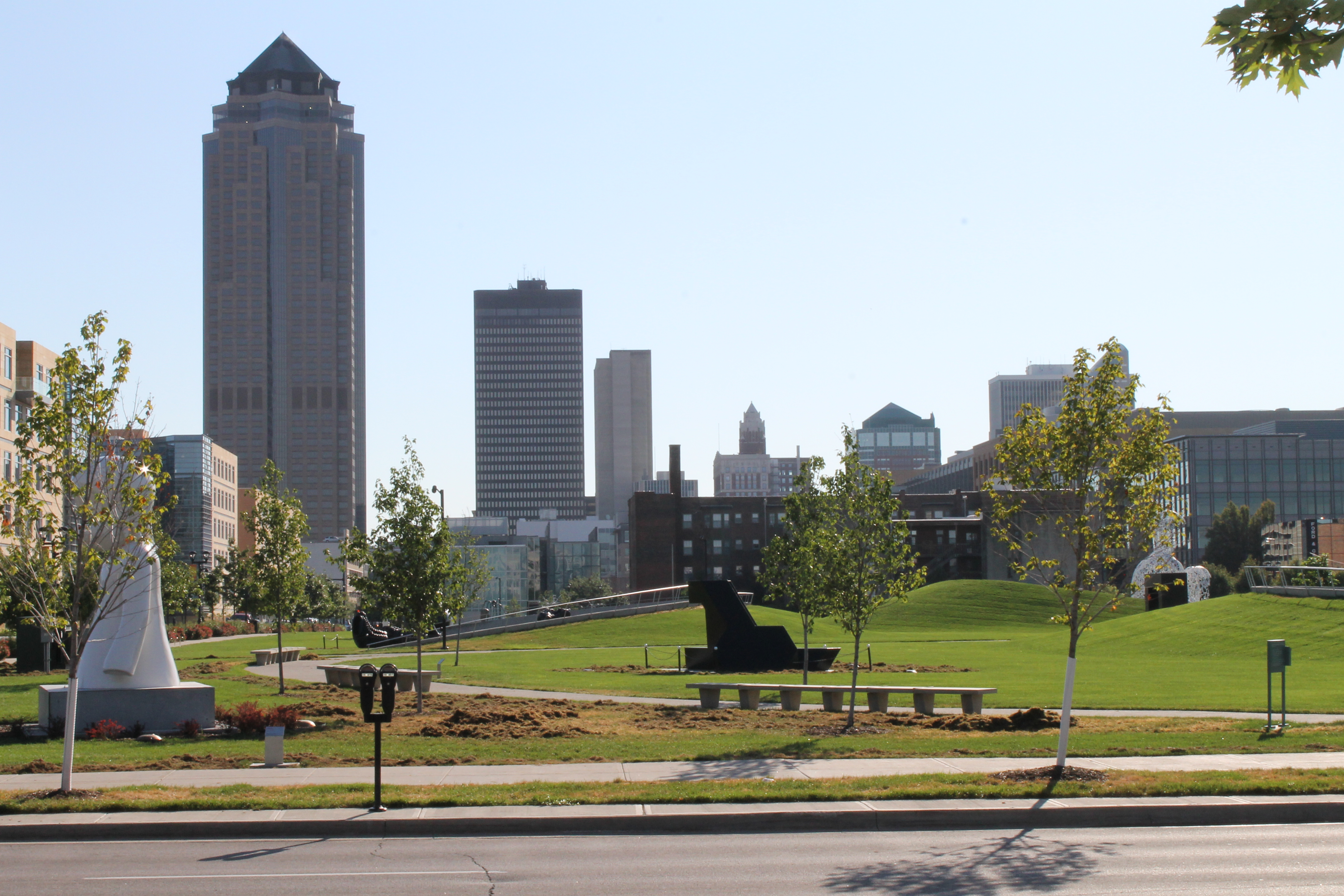 Looking east at the Des Moines Skyline from the Pappajohn Sculpture Park in the Western Gateway District of Downtown Des Moines.